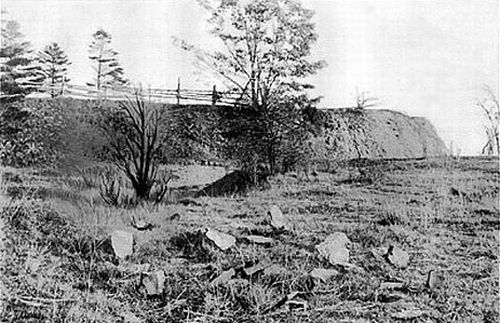 Mouth of Jackson Creek, Mimico, circa 1900. The area displayed is now a campus of Humber College.